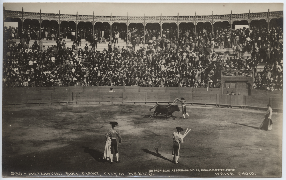 Title: Mazzantini Bull Fight, City of Mexico Creator: Waite, C. B. (Charles Betts), 1861-1927 Date: 1904 Part Of: Mexico Place: Mexico City (Mexico D.F.), Mexico Physical Description: 1 photographic print: gelatin silver; 20.2 x 12.6 cm File: ag1983_0281_0530_mazzantini_opt.jpg Rights: Please cite DeGolyer Library, Southern Methodist University when using this file. A high-resolution version of this file may be obtained for a fee. For details see the web page. For other information, . For more information and to view the image in high resolution, see: View the Mexico: Photographs, Manuscripts, and Imprints Collection